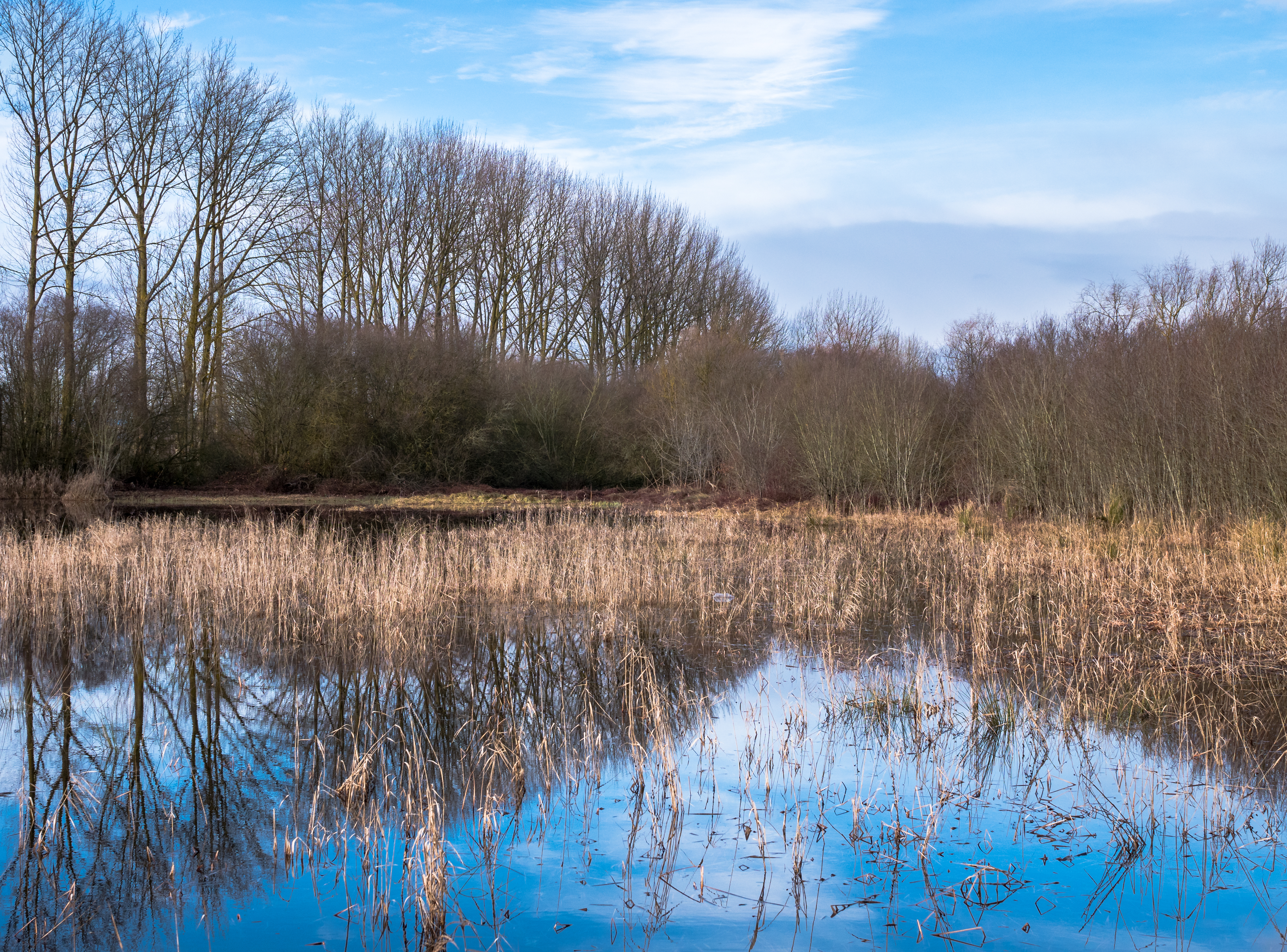 Landscape of the Salburua Wetlands. Vitoria-Gasteiz, Basque Country, Spain